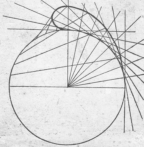 Simplified drawing of the mathematical curve "Cornoid" discovered by Alberto Sánchez in 1895